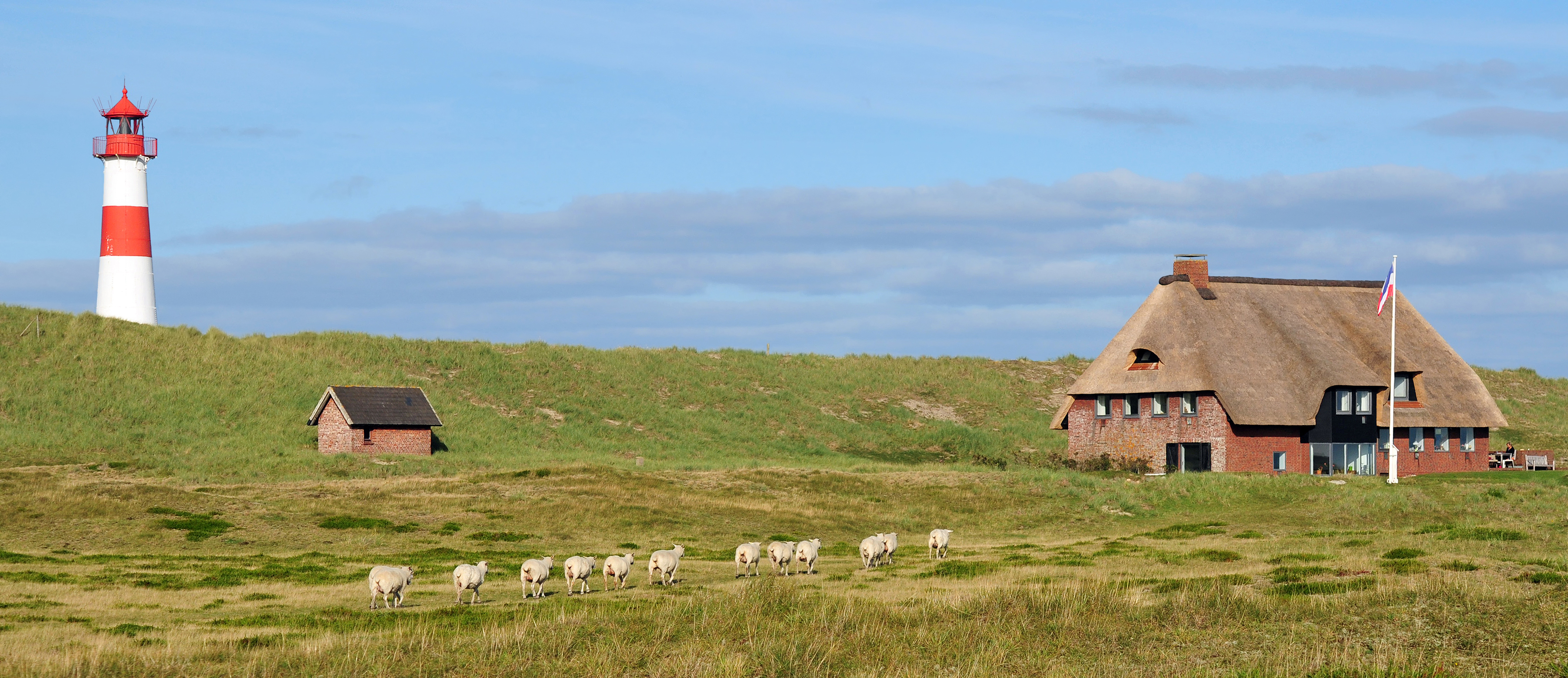 The peninsula Ellenbogen with the Leuchtturm List Ost, Sylt, Germany